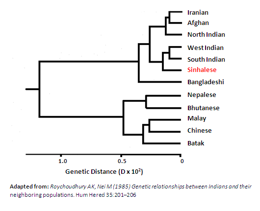 Genetic distance of Sinhalese to other ethnic groups. Ｐroduced it using data from the source. Source: Roychoudhury AK, Nei M (1985) Genetic relationships between Indians and their neighboring populations. Hum Hered 35:201–206